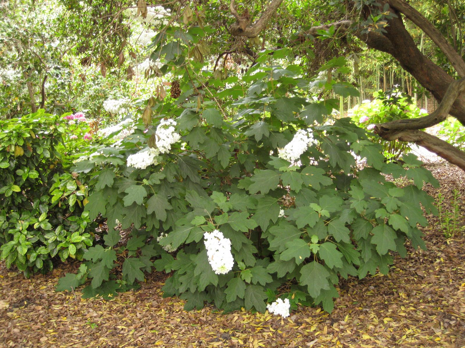 Photographed at Huntington Gardens (Los Angeles) in June